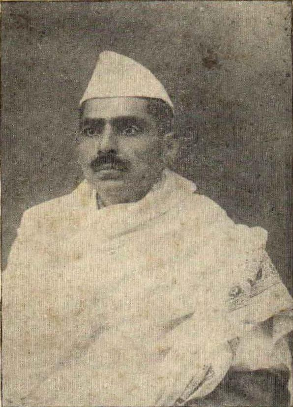 He was the Indian Independence activist.